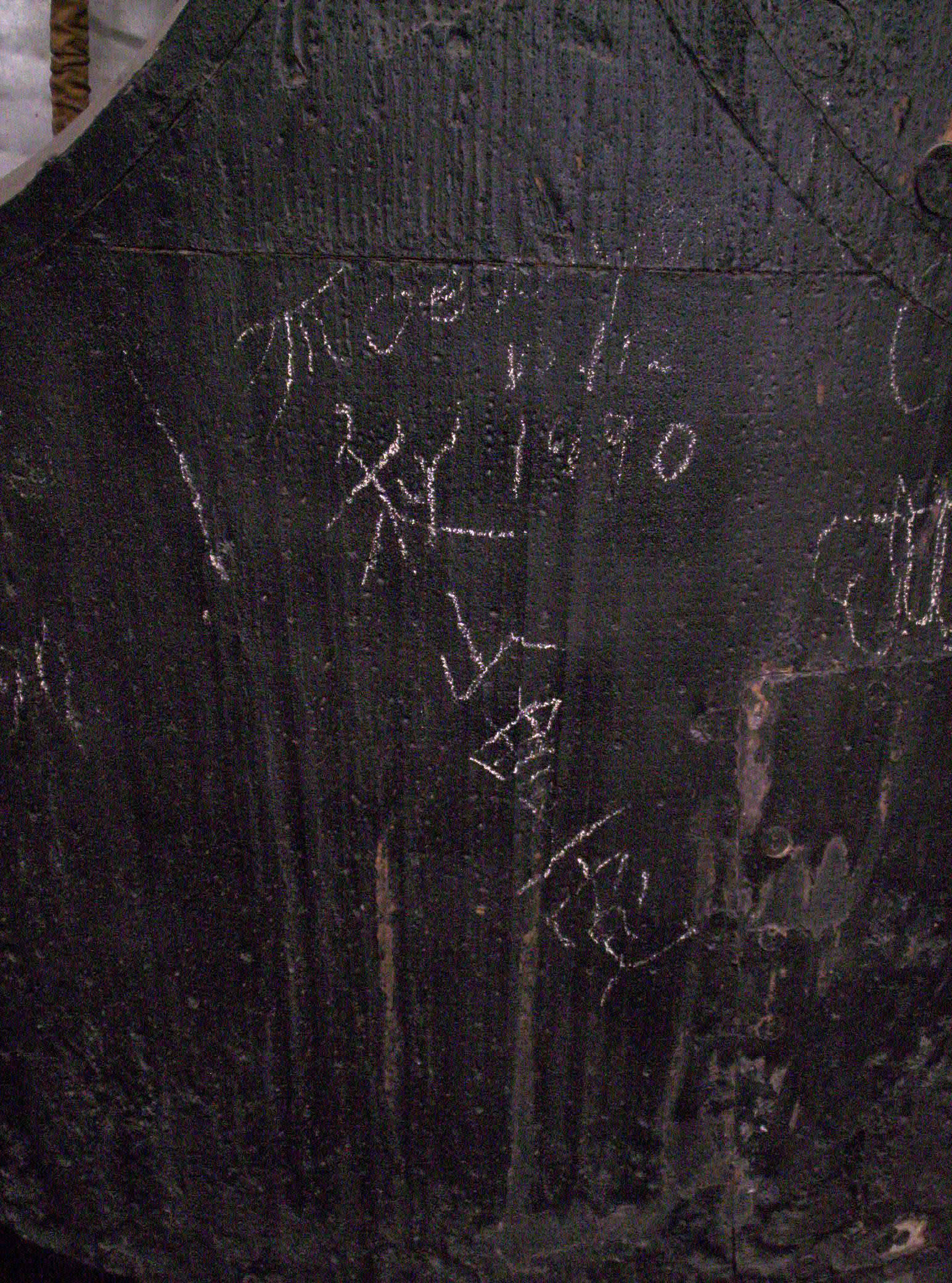 Side of Soyuz TM-10 where it was signed by its occupants. On display at the National Air and Space Museum in Washington. The inscription in Japanese reads Toyohiro Akiyama (秋山豊寛).